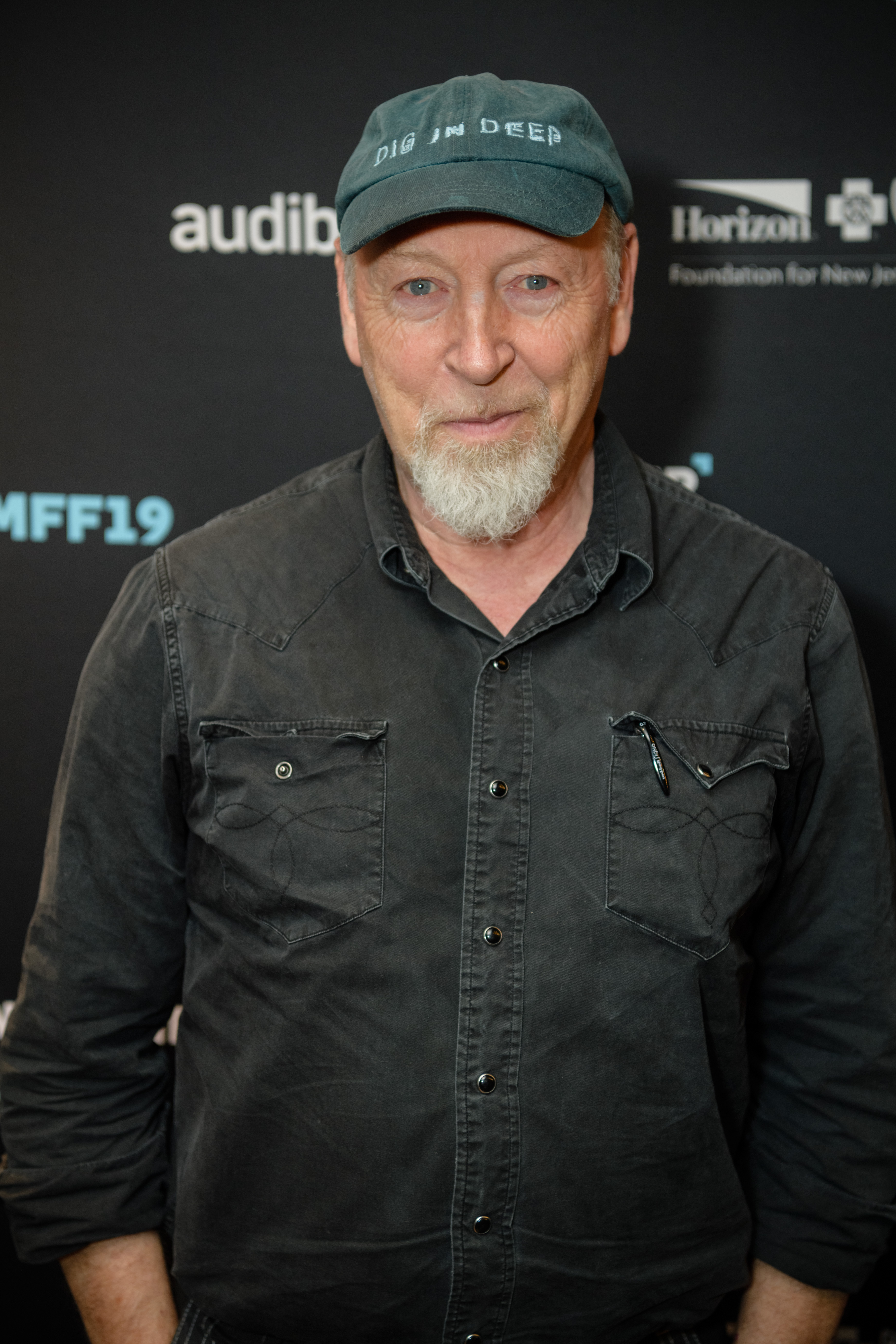 Richard Thompson at the Montclair Film Festival 2019.